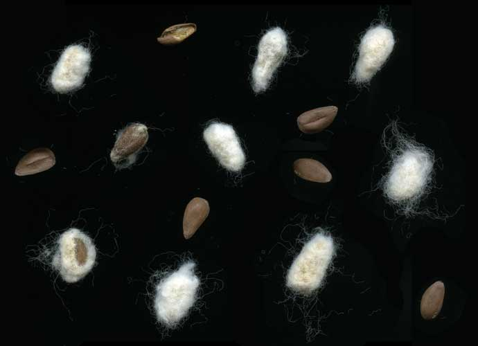 Cotton seeds approximately 3/8 inch long and 3/16 inch wide.